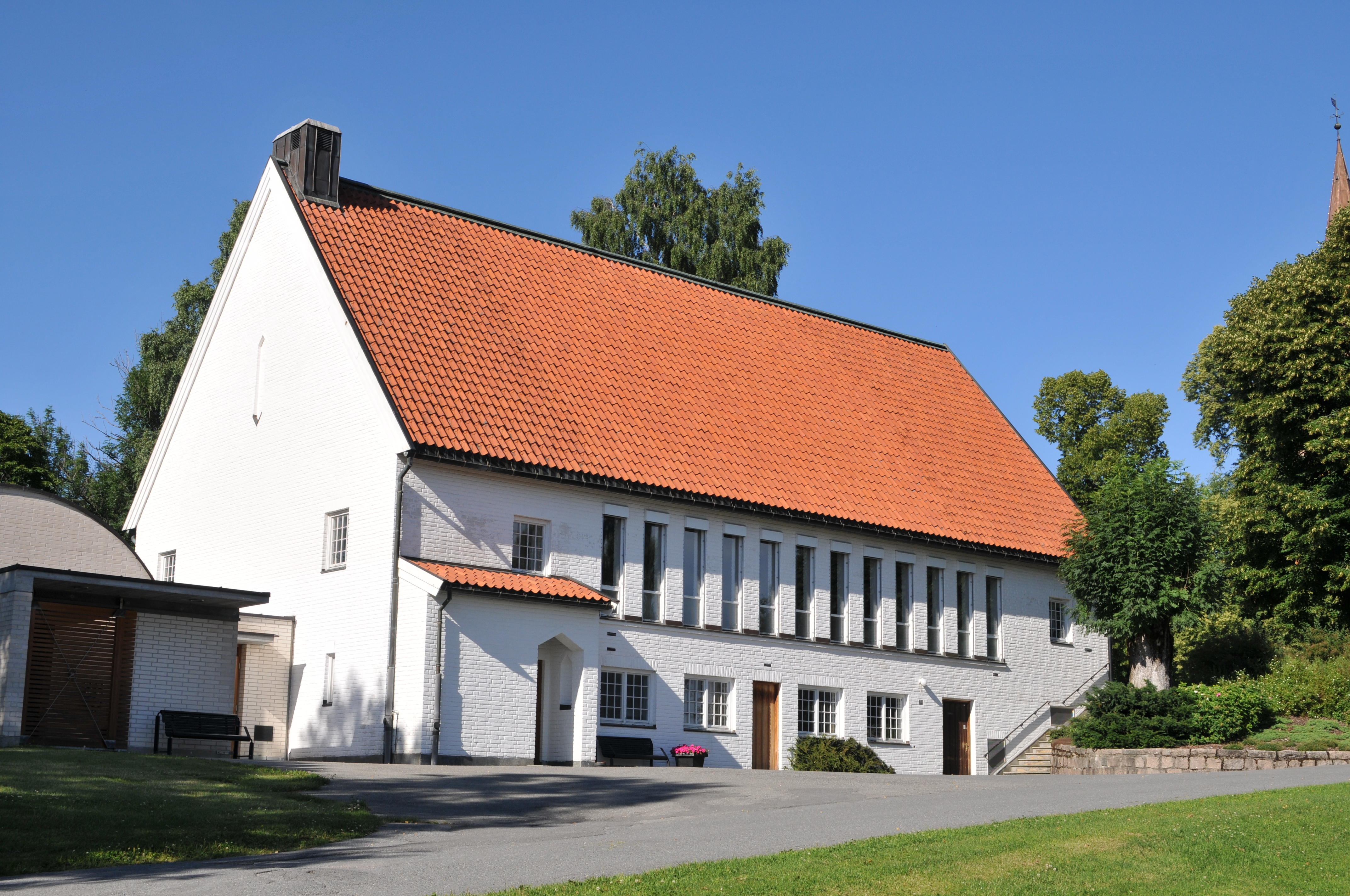 Asker krematorium, Asker, Norway - Architects Gudolf Blakstad and Herman Munthe-KaasNorsk bokmål: Asker krematorium, Asker, Norge - Arkitekter Gudolf Blakstad og Herman Munthe-Kaas